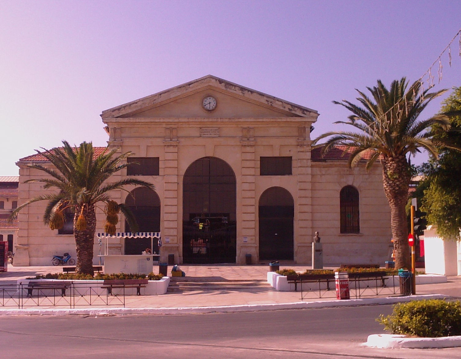 Market Hall in Chania, Crete, Grece